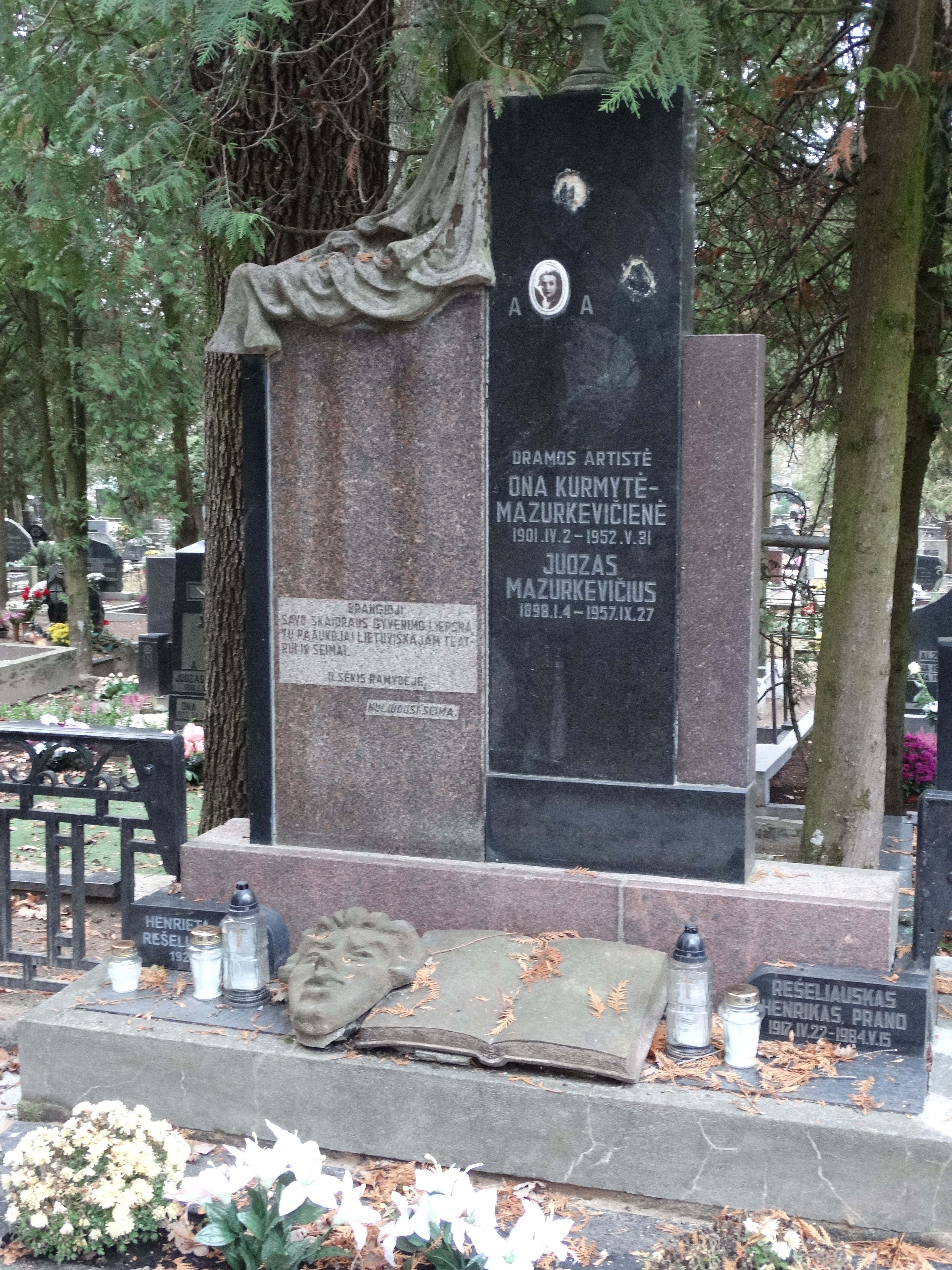 Tomb of Ona Kurmytė, Juozas Mazurkevičius, Eiguliai cemetery, Lithuania